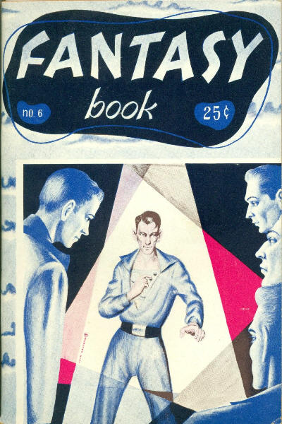 Cover, Fantasy Book, v1n6